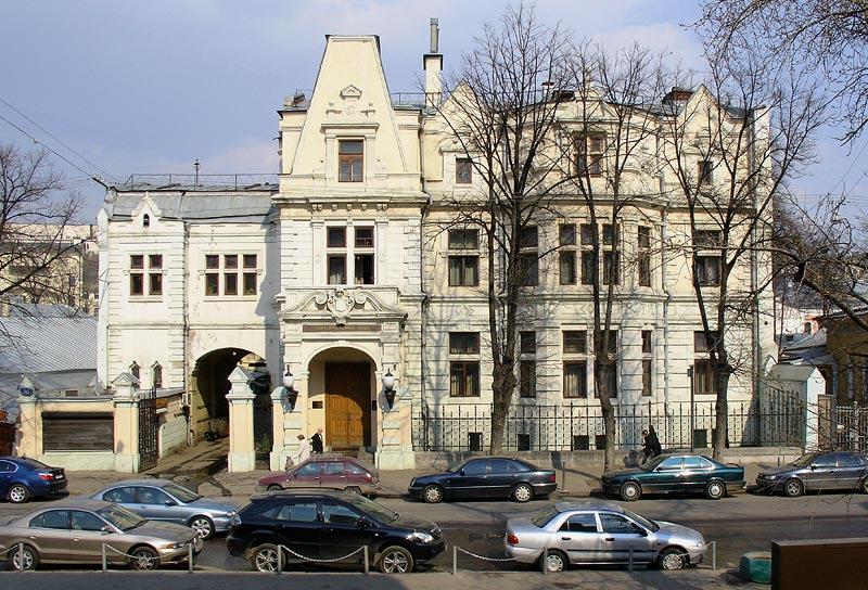 Moscow, Povarskaya, 50, by Pyotr Boytsov